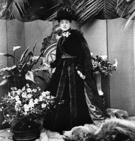 Ethel Fane later Grenfell, Baroness Desborough photographed by Cyril Flower, 1st Baron Battersea. Photographer died in 1907.